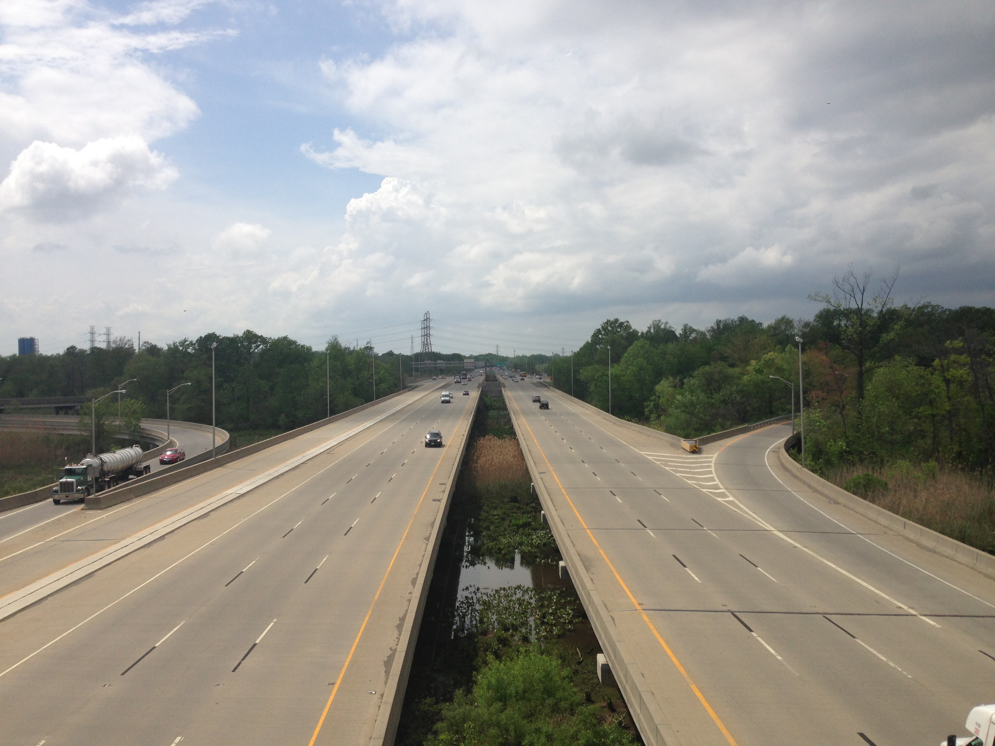 View north along New Jersey State Route 29 (Central Jersey Expressway) from the Interstate 295 (Camden Freeway) overpass in Hamilton Township, Mercer County, New Jersey